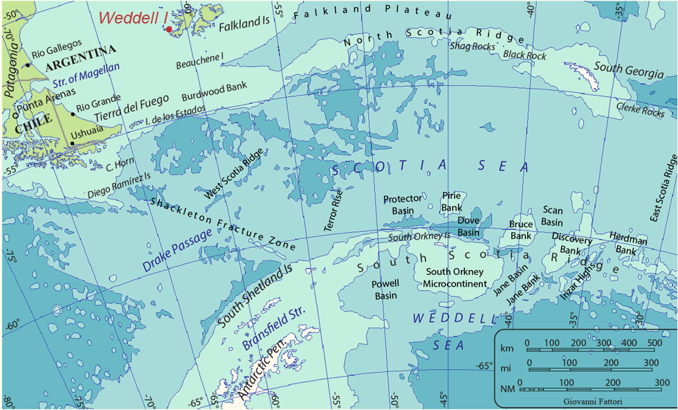 Location map of Weddell Island in the South Atlantic Ocean